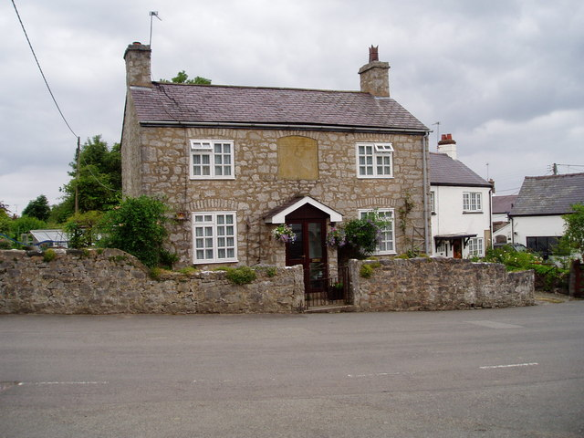 The Old School, Cilcain. The old school in Cilcain, which was built in 1799 by public subscription. The stone above the door reads "This Building was Erected on the Common by a Voluntary Subscription from the Landowners and Occupiers of Land in this parish as a School for the use and Benefit of the Parishioners 1799".